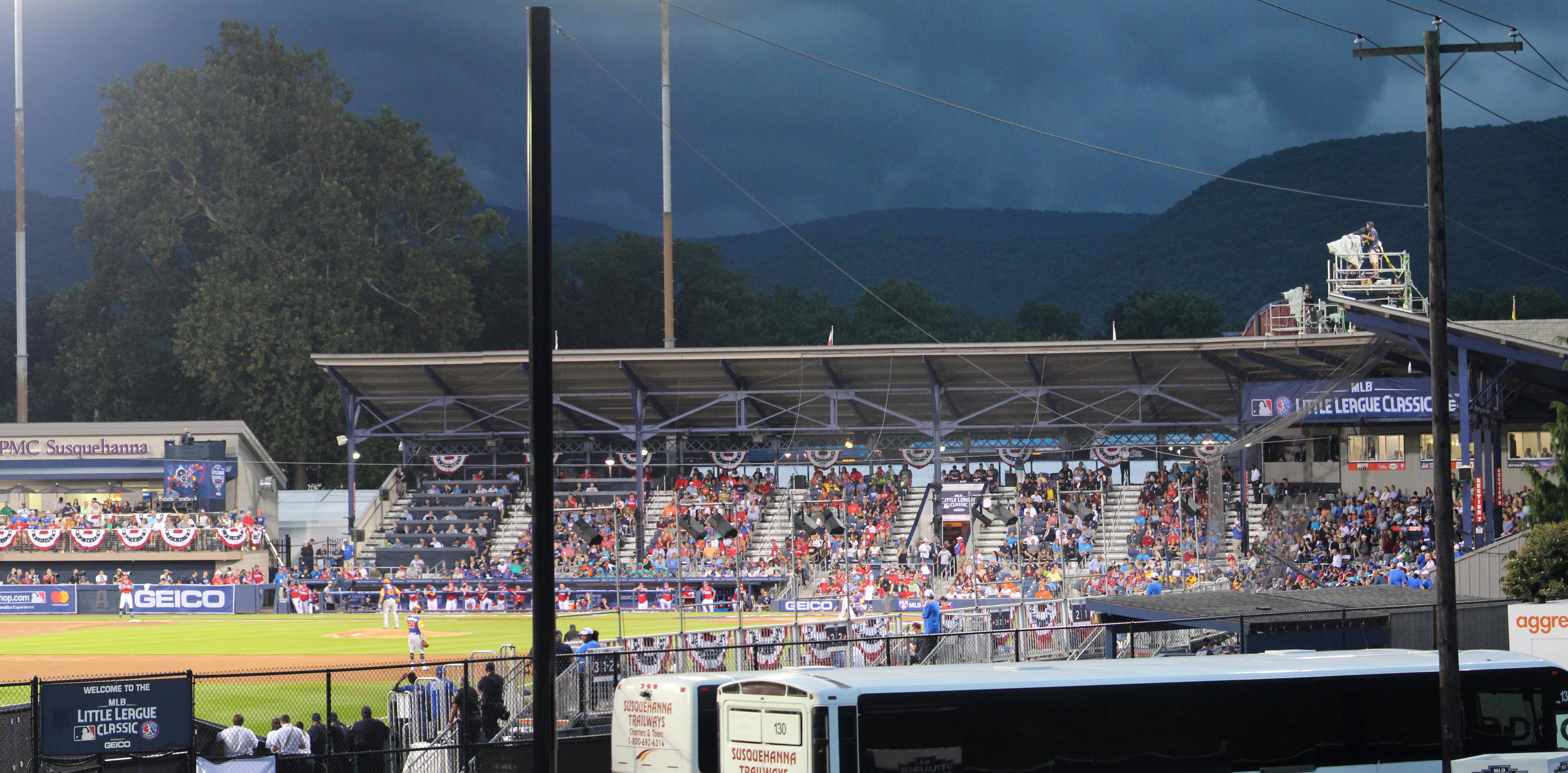 Major League Baseball's Little League Classic game between the Philadelphia Phillies and New York Mets at Bowman FIeld in Williamsport, PA, USA on August 19, 2018 (stitched with Microsoft ICE)